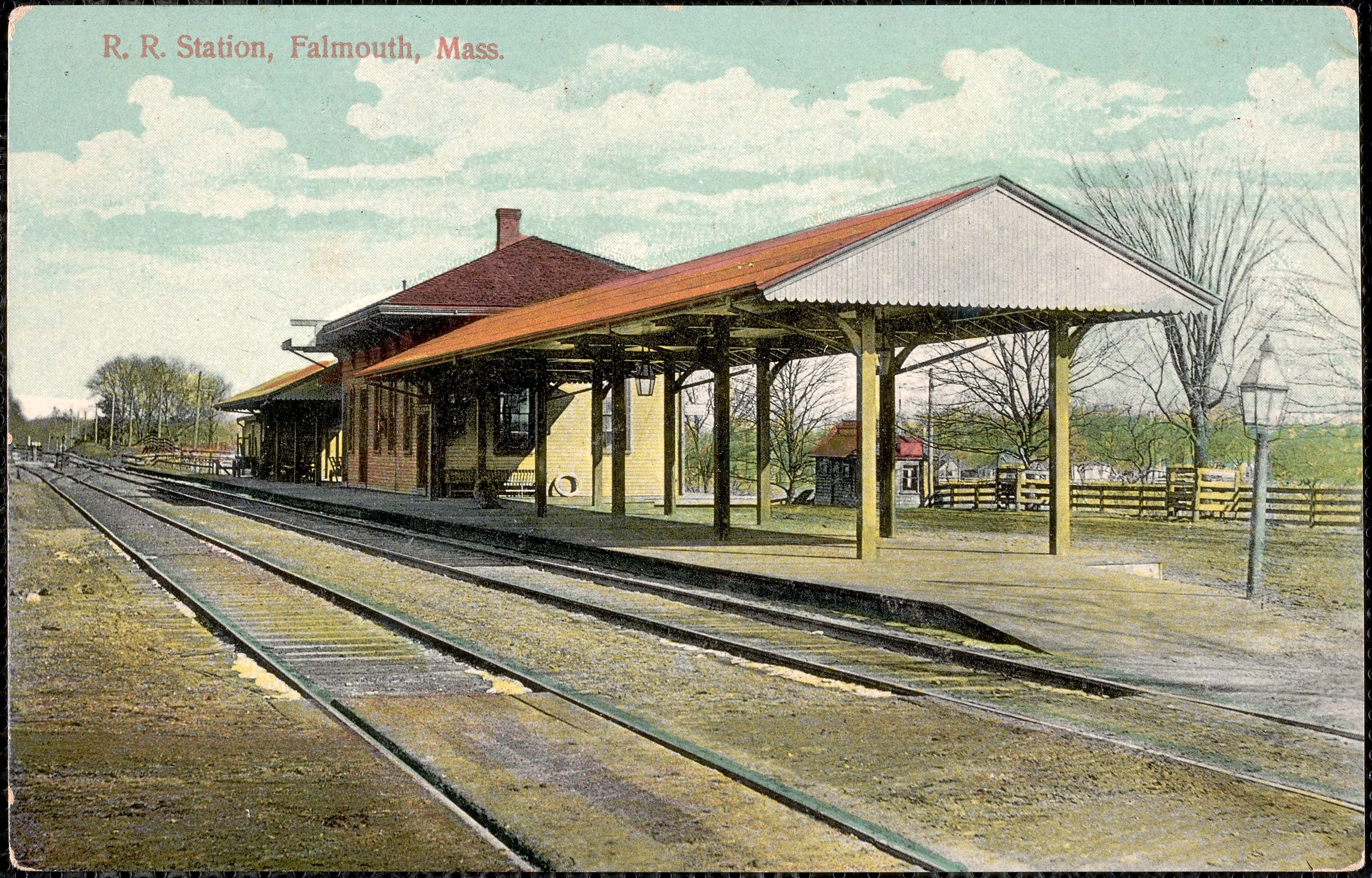 An early postcard of the former train station in Falmouth, Massachusetts on Cape Cod.